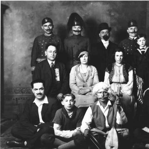 A photograph of members of the Serbian Society in Juneau, Alaska, for the production of the play "Osveta" in 1928.